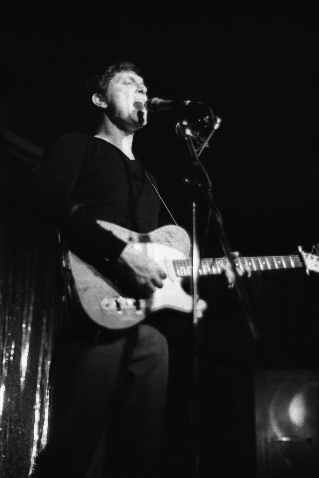 Neue Berliner Initiative / Berlin / December 6th 2009